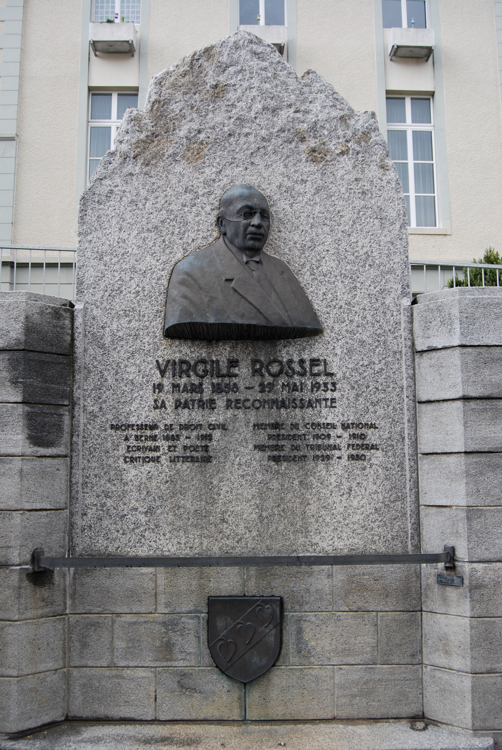 Monument of Virgile Rossel in Tramelan realized by Joseph Constantin Kaiser